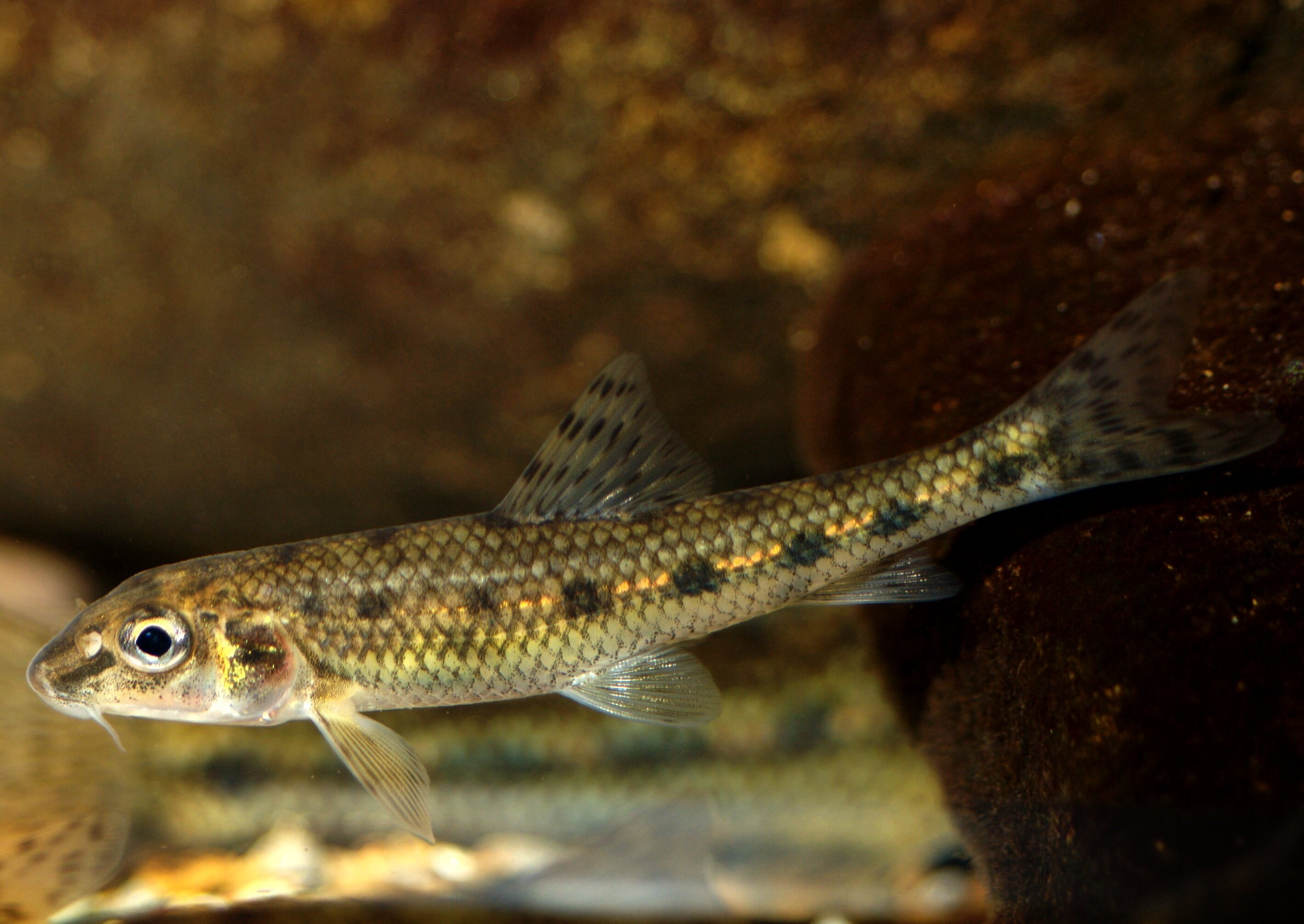 Gudgeon.